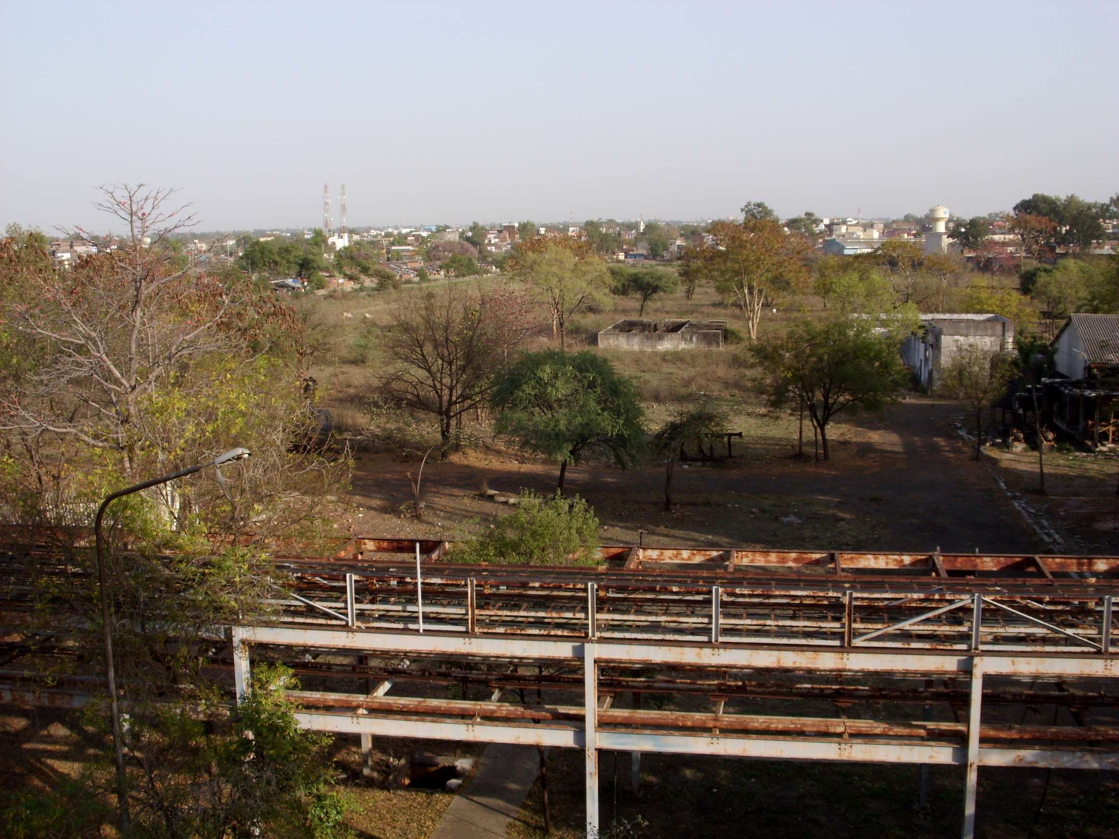 On the site of Bhopal disaster. Hornjoserbsce: Na městnje chemiskeje katastrofy dnja 3. decembra 1984 w Bhopalu, Indiska.